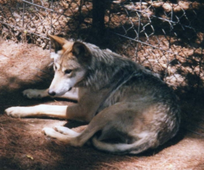 Mexican Wolf at Binder Park Zoo.